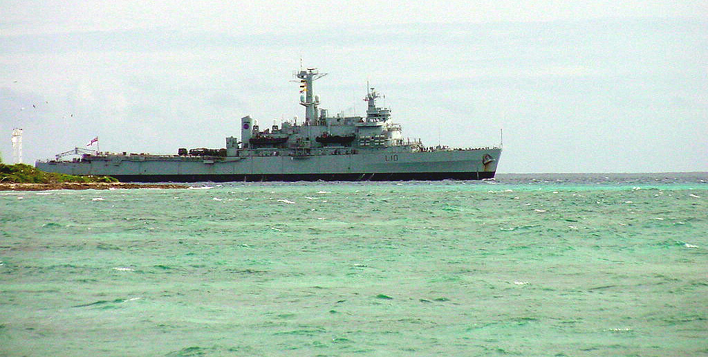 The HMS Fearless (L 10), a British Royal Navy amphibious assault ship, enters a harbour at a forward deployed location. The Fearless was operating in the Indian Ocean as part of the forces supporting "Operation Enduring Freedom".